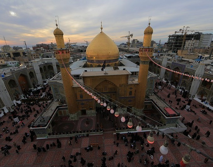 Porch of Imam Ali Mosque